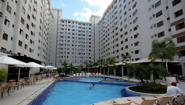 Hotel 5 Stars CN/GO/BR